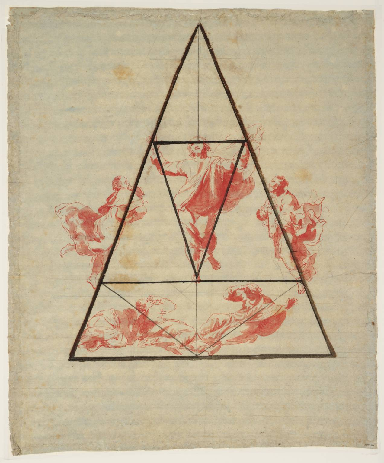 Lecture Diagram 10: Proportion and Design of Part of Raphael's 'Transfiguration'. Part of the Turner Bequest to the Tate (1856).